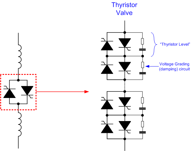 Simplified schematic arrangement of one phase of a Thyristor Valve for a Thyristor Controlled Reactor